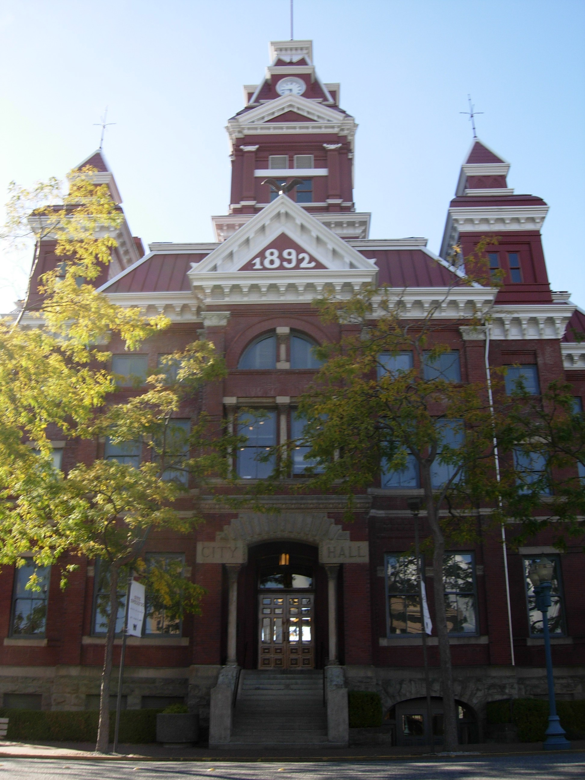 Whatcom Museum of History and Art in Bellingham, Washington